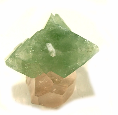 Hydroxylherderite, Topaz Locality: Dassu (Dasso; Dusso), Shigar Valley, Skardu District, Baltistan, Northern Areas, Pakistan (Locality at ) Hydroxylherderite on topaz. This remarkable example of paragenesis is aesthetic and beautiful, as well. Summer of 2003. 3 x 2.9 x 2.2 cm